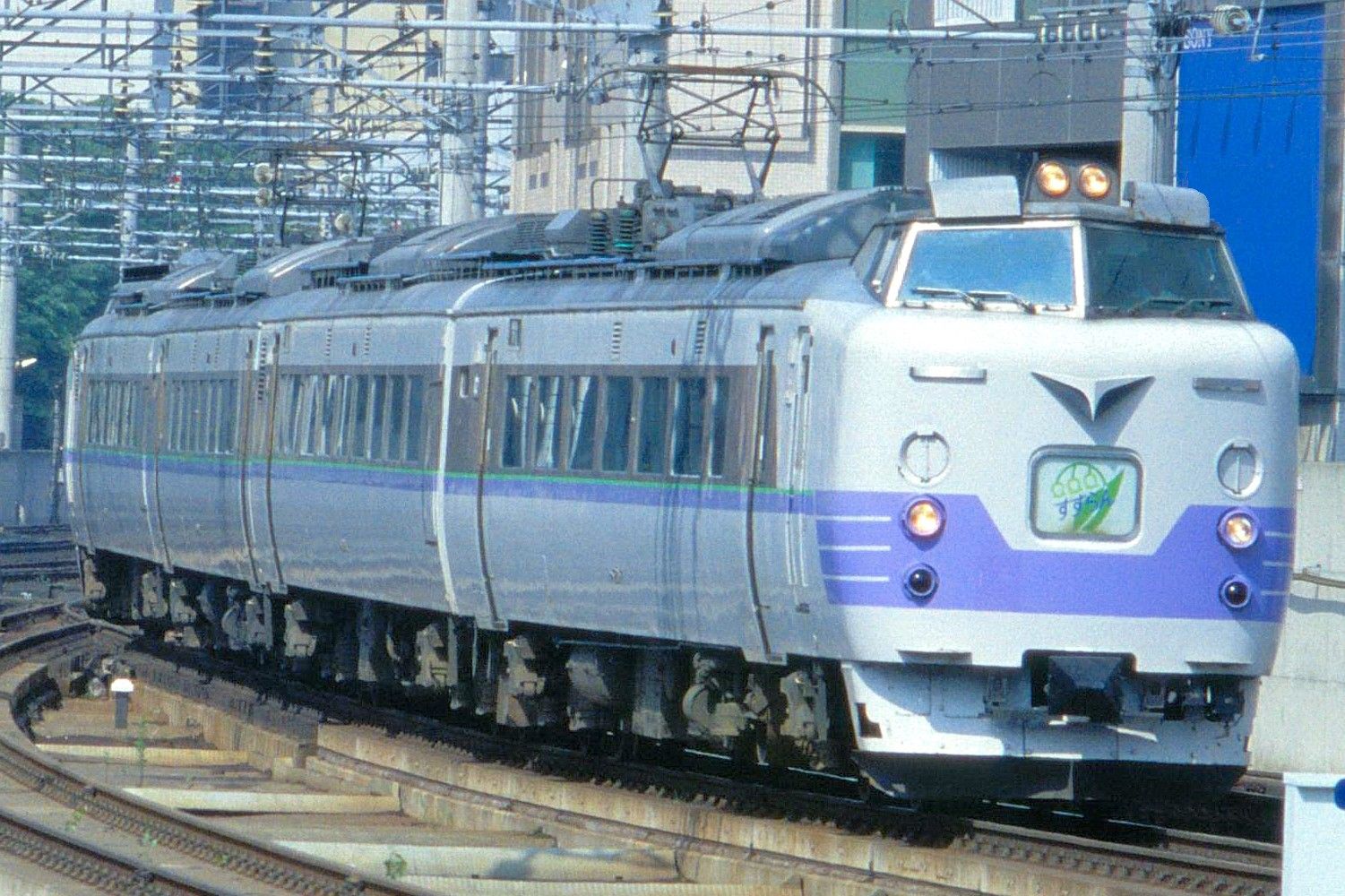 JR Hokkaido 781 series EMU at Sapporo Station on a Suzuran limited express service